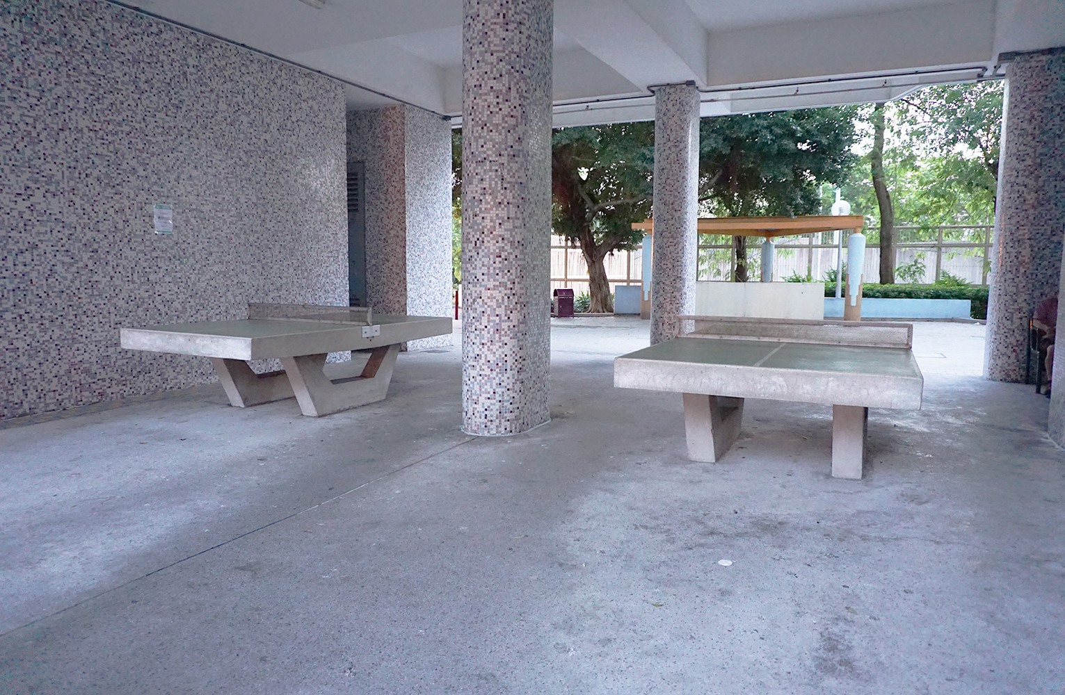 Kwai Shing East Estate in Kwai Shing, Hong Kong.